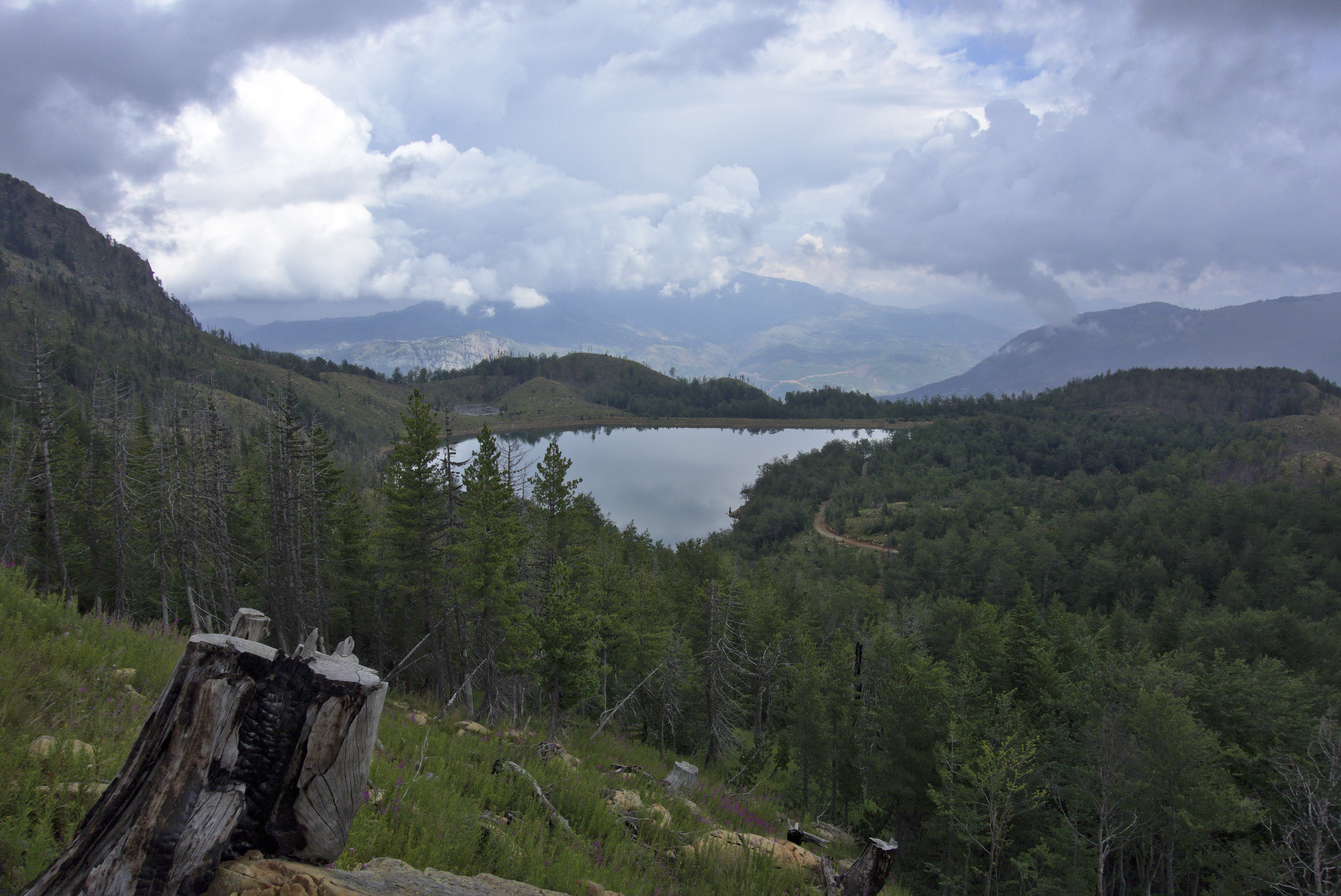 Big Lake (Liqeni i Madh) in Lurë National Park near Fushë Lurë